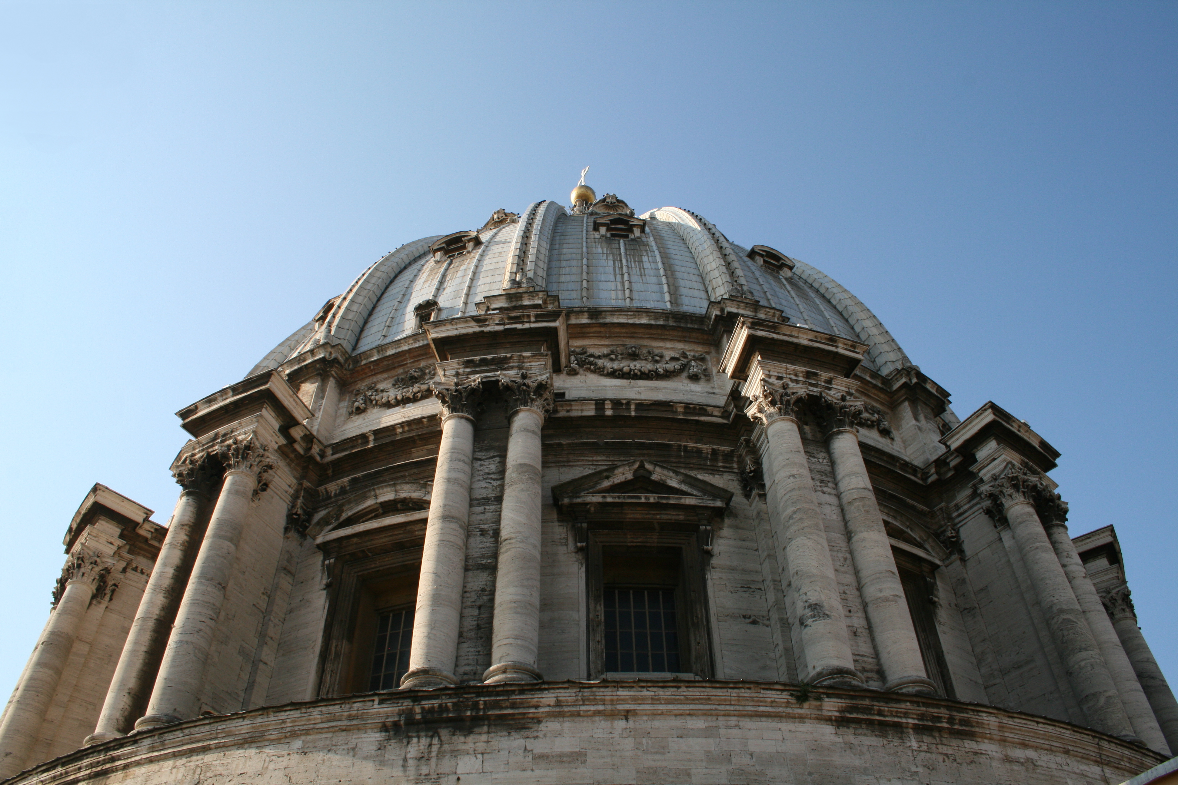 Dome of the St. Peter's Basilica in Vatican City.